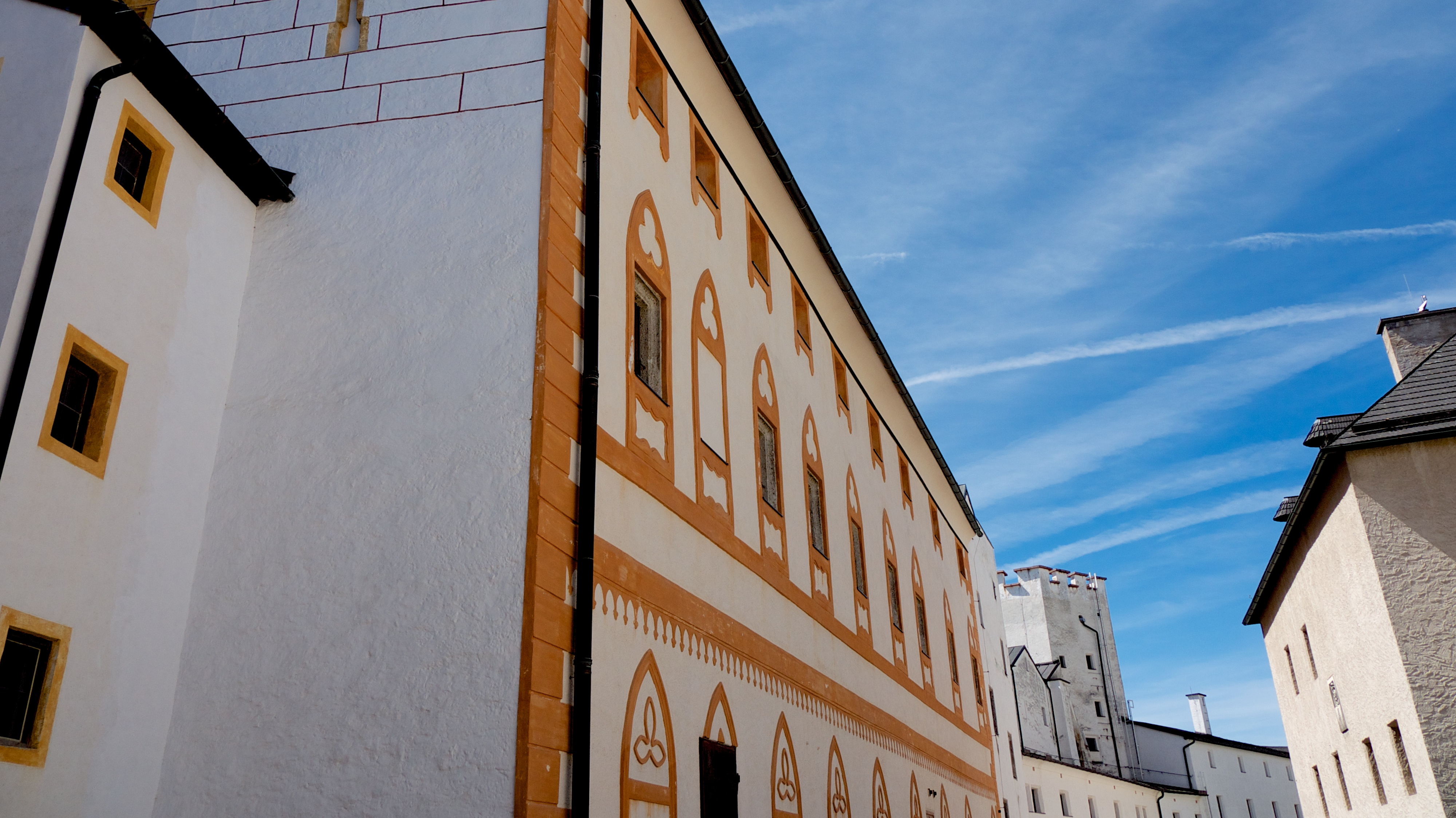 Interior of Hohensalzburg Castle in Salzburg